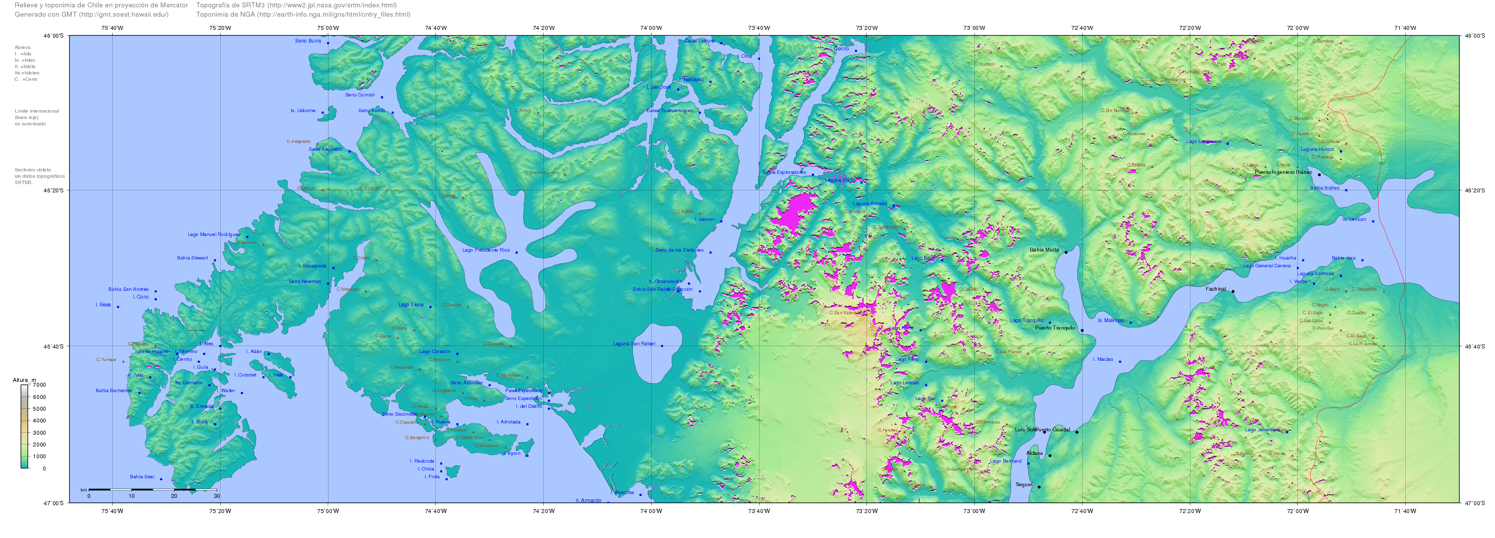 Map of Chile generated with GMT ( topography from SRTM ftp://e0srp01u.ecs.nasa.gov/srtm/version2/SRTM3/ and toponymy from